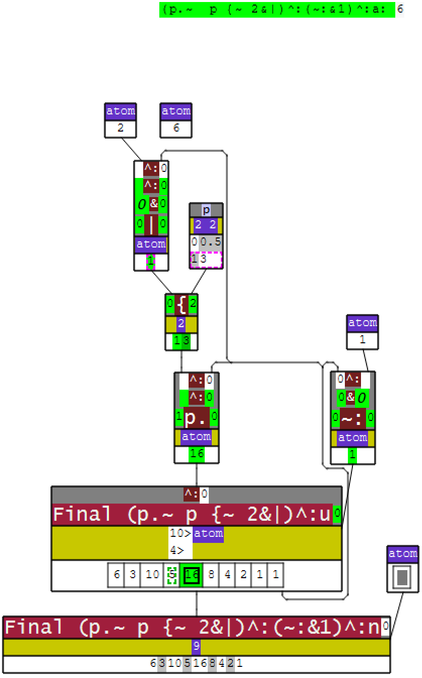 This is a screenshot from running Dissect, the J sentence debugger